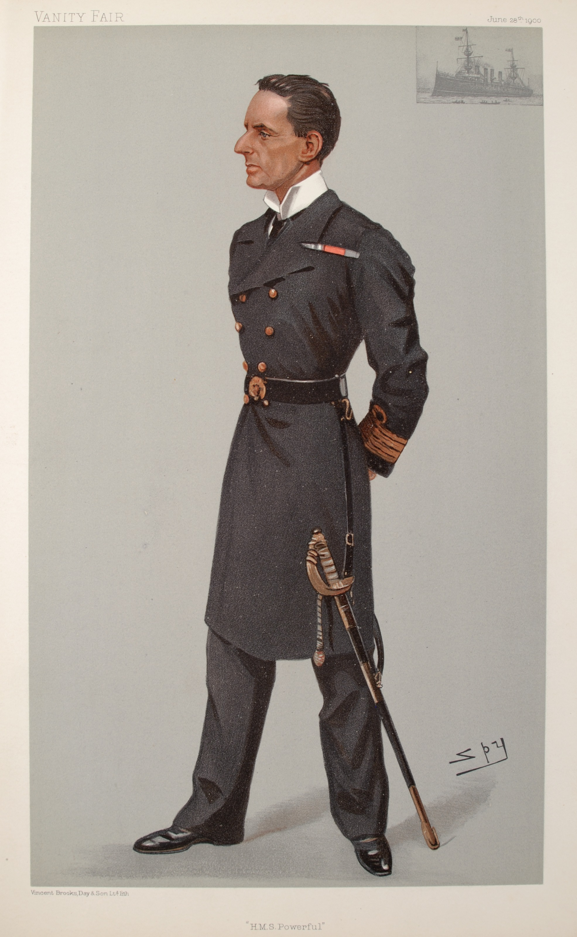 Men of the Day No. 781: Caricature of Captain Hedworth Lambton, later Admiral the Hon Sir Hedworth Meux, in 1900. Caption read "HMS Powerful".